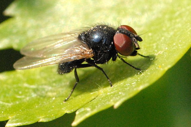 Lonchaea chorea from Commanster, Belgian High Ardennes .